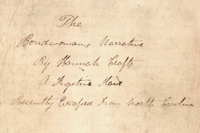 Title page of 'The Bondwoman's Narrative,' written by Hannah Crafts (the name may be a pseudonym) ca. 1853-1861. The book is a fictionalized autobiography written by a fugitive slave 'recently escaped from North Carolina.' Courtesy of the Beinecke Rare Book and Manuscript Library, Yale University, New Haven, Connecticut. Gift of Henry Louis Gates (Yale '73).